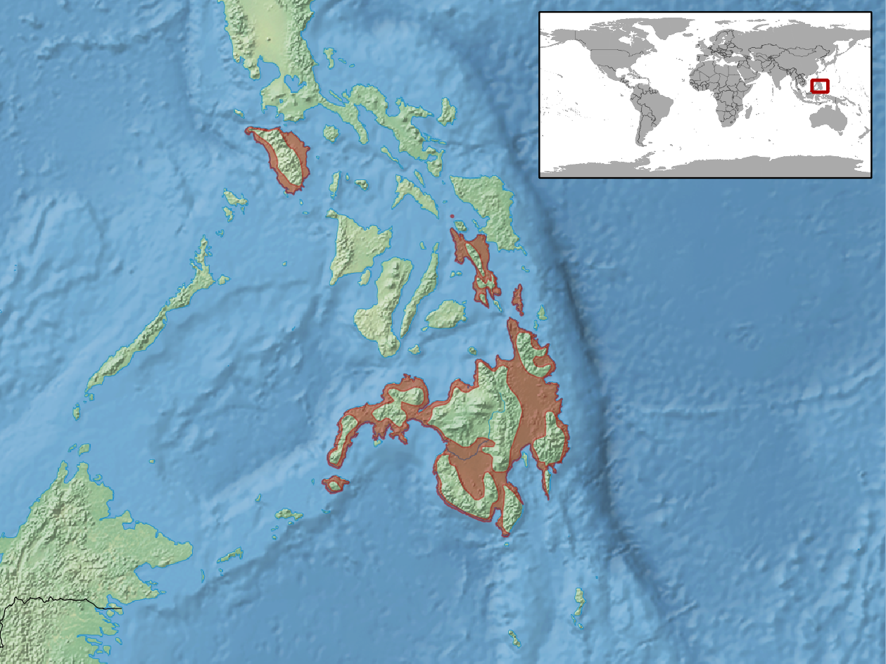 geographic distribution of Ptychozoon intermedium (Native: Philippines)